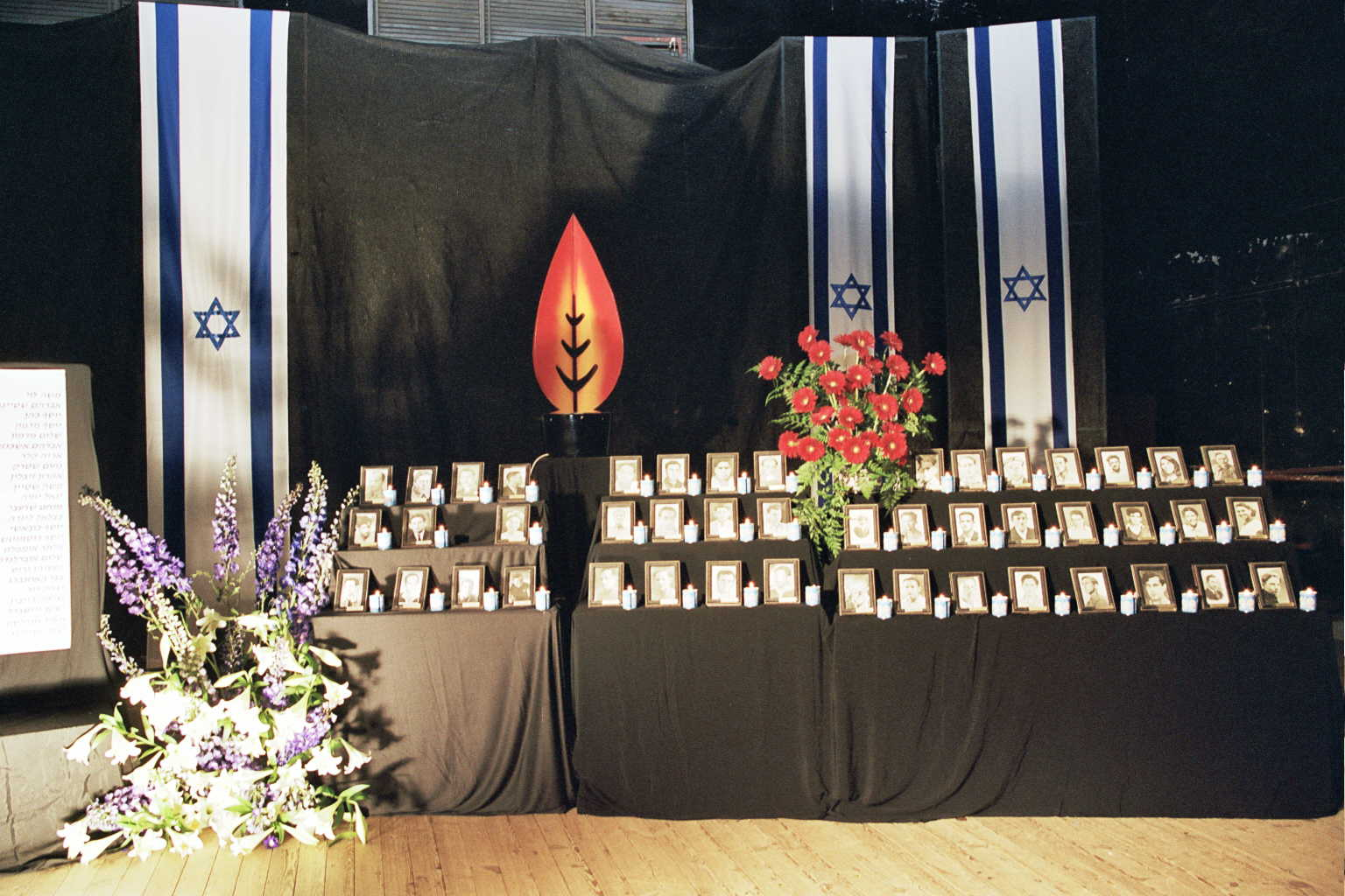 The stage in the Yad LaMaginim Hall in Ramat HaKovesh before the annual Yom HaZikaron memorial ceremony.